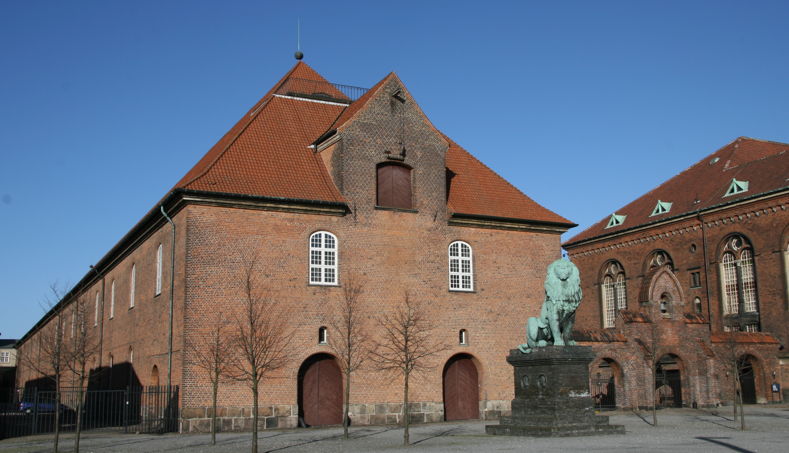 Tøjhusmuseet, The Royal Danish Arsenal Museum in Copenhagen. Backend. Bagside.